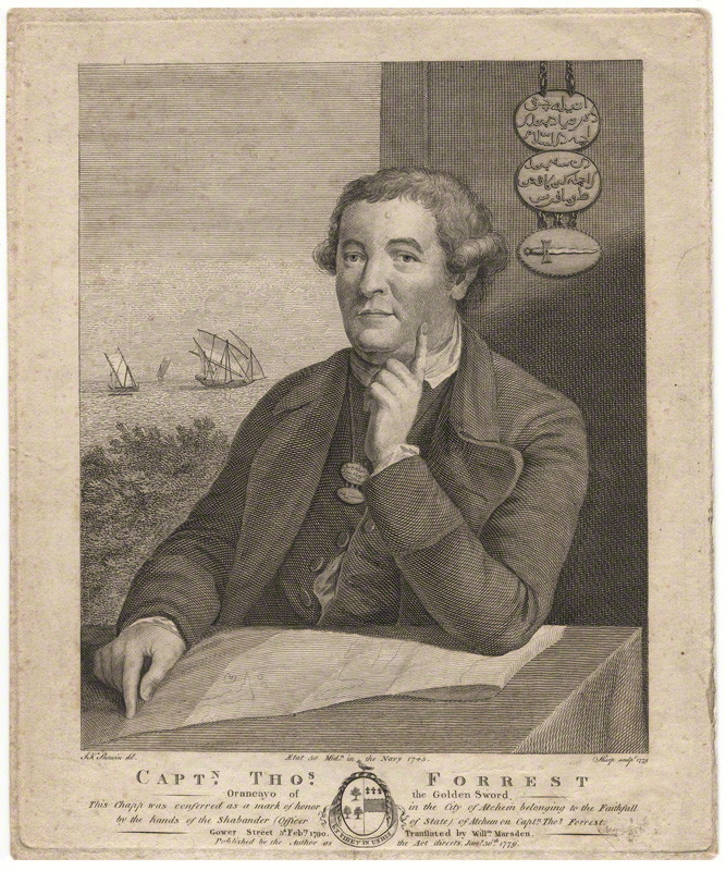 Thomas Forrest (1729?–1802?), Scottish navigator